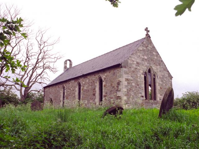 Embleton Church, County Durham. In the deserted medieval village of Embleton. There are two other Embletons in England - the main one being in Northumberland and the other in the northern Lake District. One meaning of Embleton is "a hill infested with caterpillars"